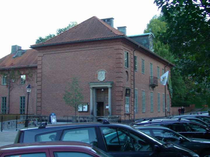 Värmlands nation house in September 2010.